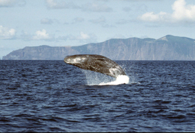 Sperm Whale (Physeter macrocephalus), Pottwal